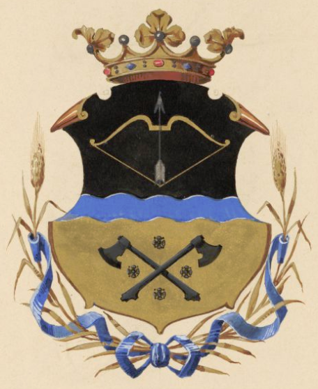 Coat of arms of Iisalmi from 1894